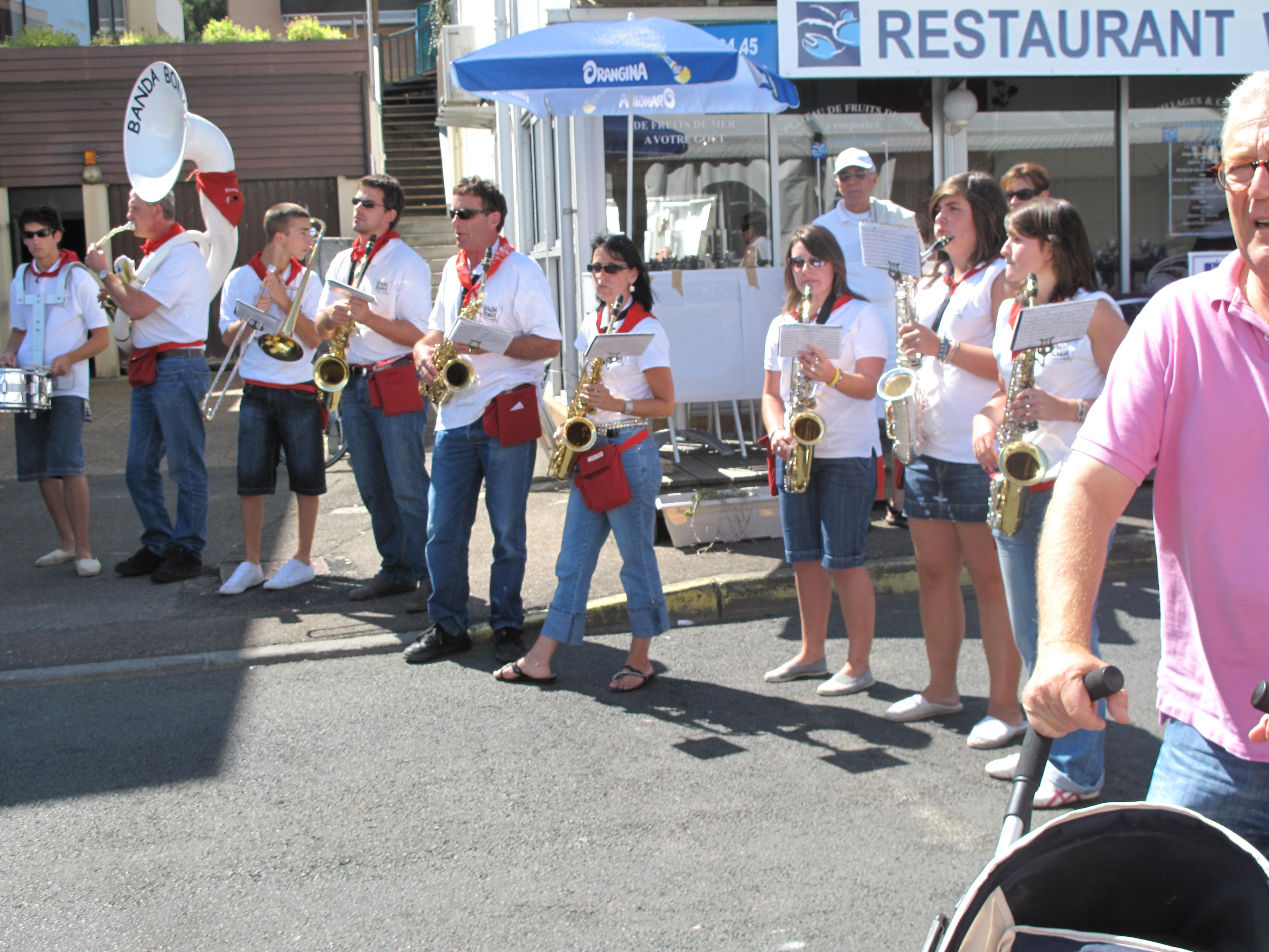 The banda "Banda Bonga" in the south-west of France